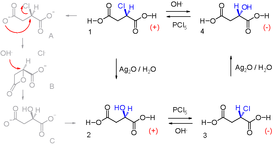 Walden inversion